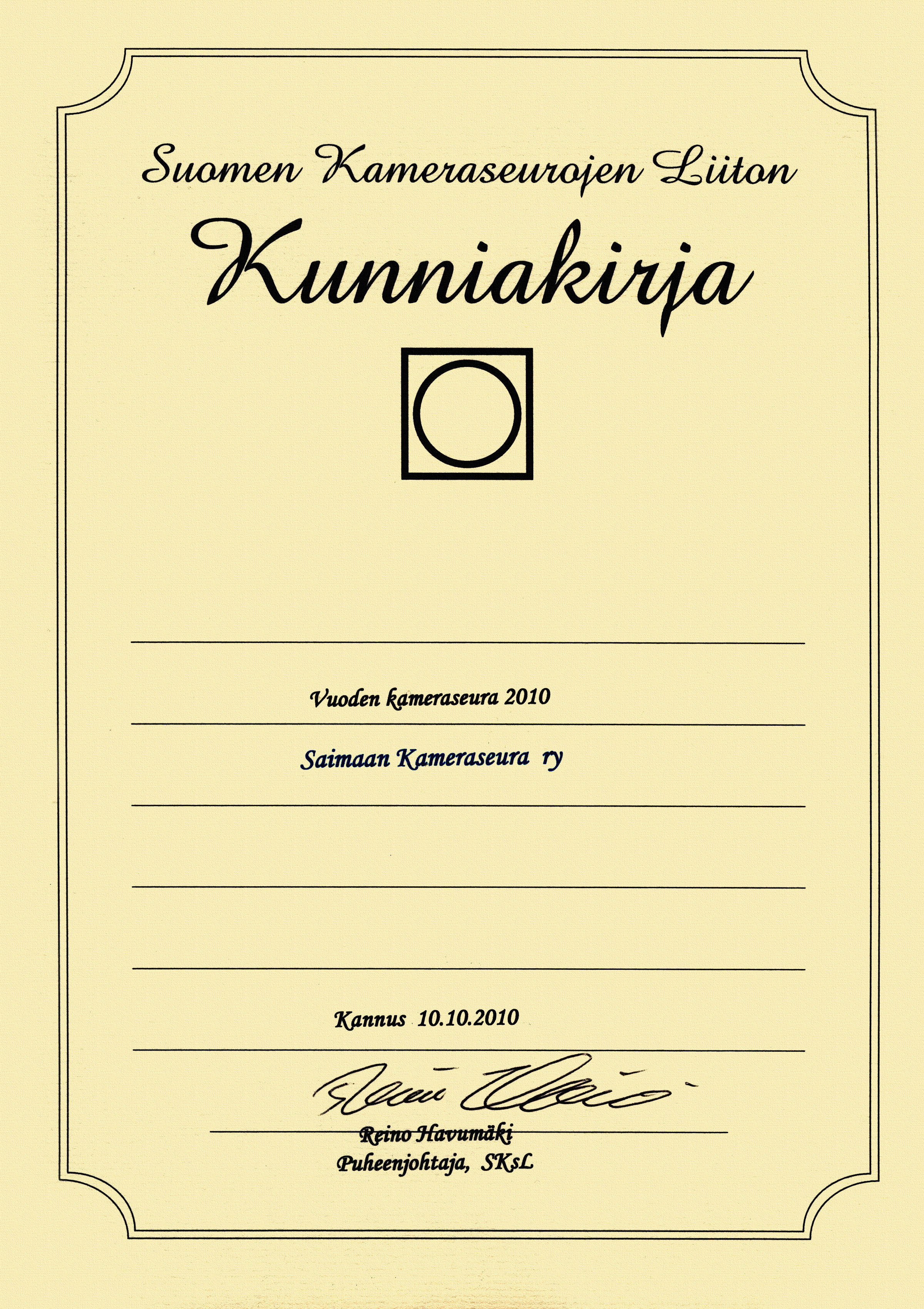 A diplom for the Photoclub Saimaan Kameraseura in 2010